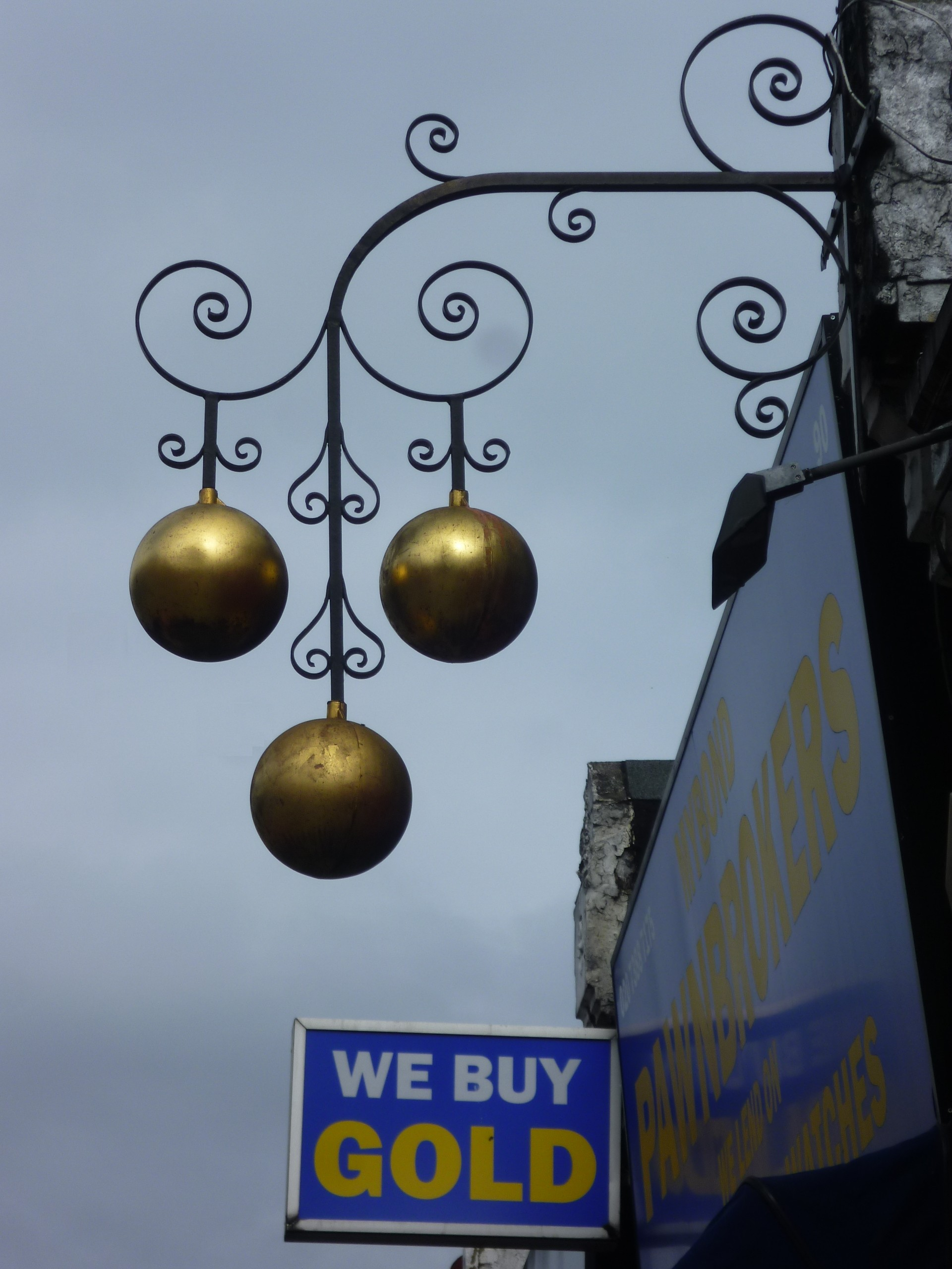 Pawnbroker's sign, Camden High Street, London